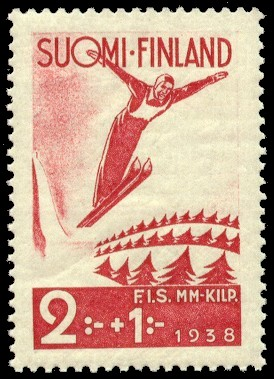 Cross country skiing championship in Lahti 1938